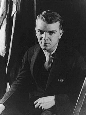 John Arledge (1906–1947) Portrait of John Arledge